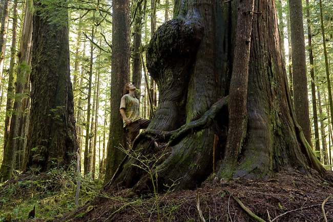 Avatar Grove near Port Renfrew BC contains some of the most accessible and impressive ancient forests on Vancouver Island. Giant Douglas-firs (Pseudotsuga menziesii subsp. menziesii, left) and gnarly Western Redcedars (Thuja plicata, right) fill the grove. The area is under the imminent threat of logging by surrey based company Teal Jones.